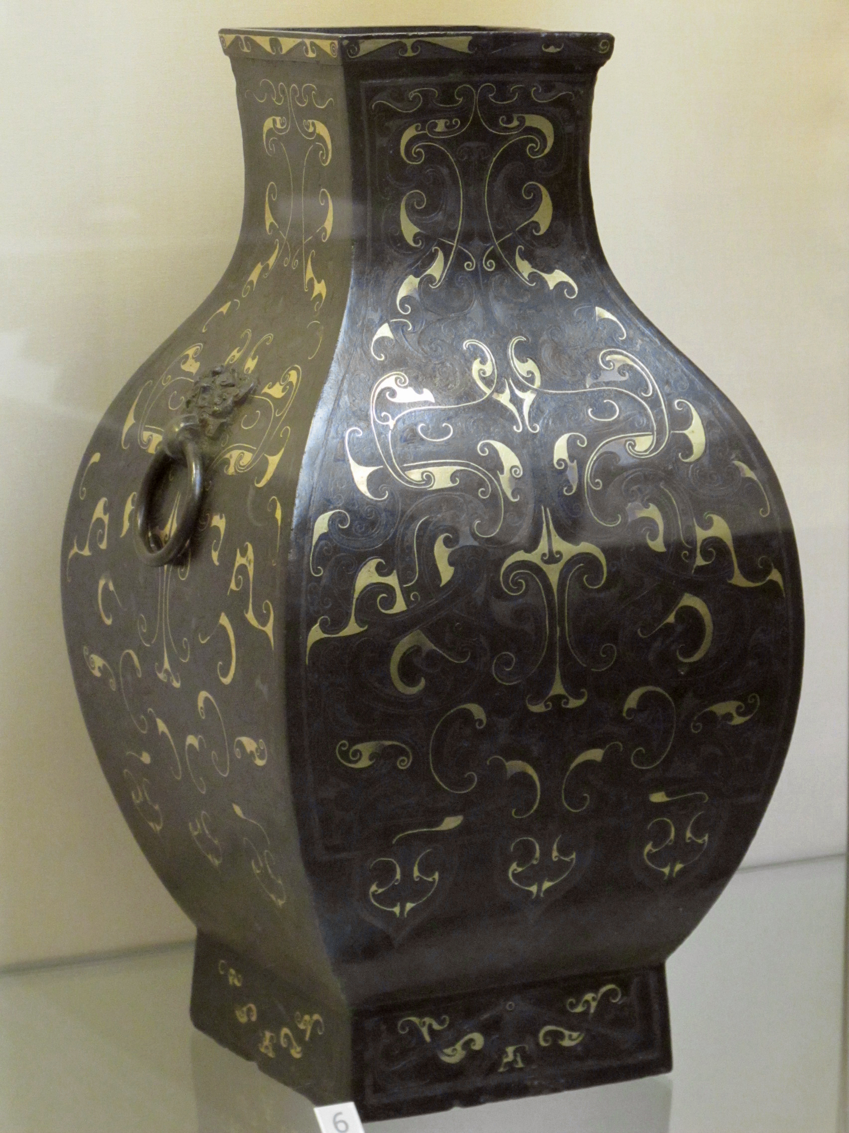 Wine jar fang. Western Han Dynasty, 206 BC-AD 8. Bronze with gold and silver inlay. Given from the E.A. Brooks collection. Victoria and Albert Museum. Museum no.M.1154-1926